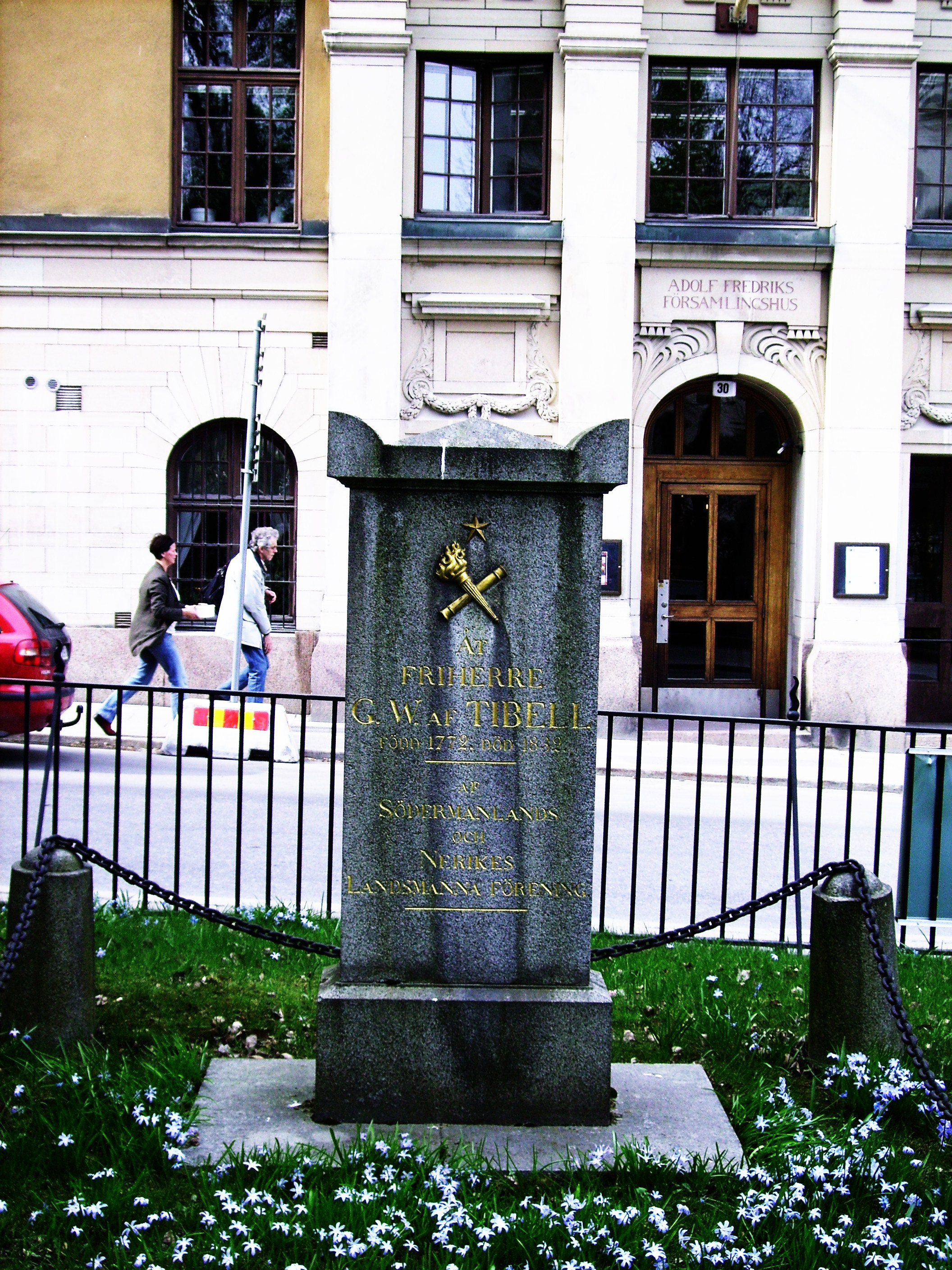 Picture of GW af Tibells grave at Adolf Fredrik